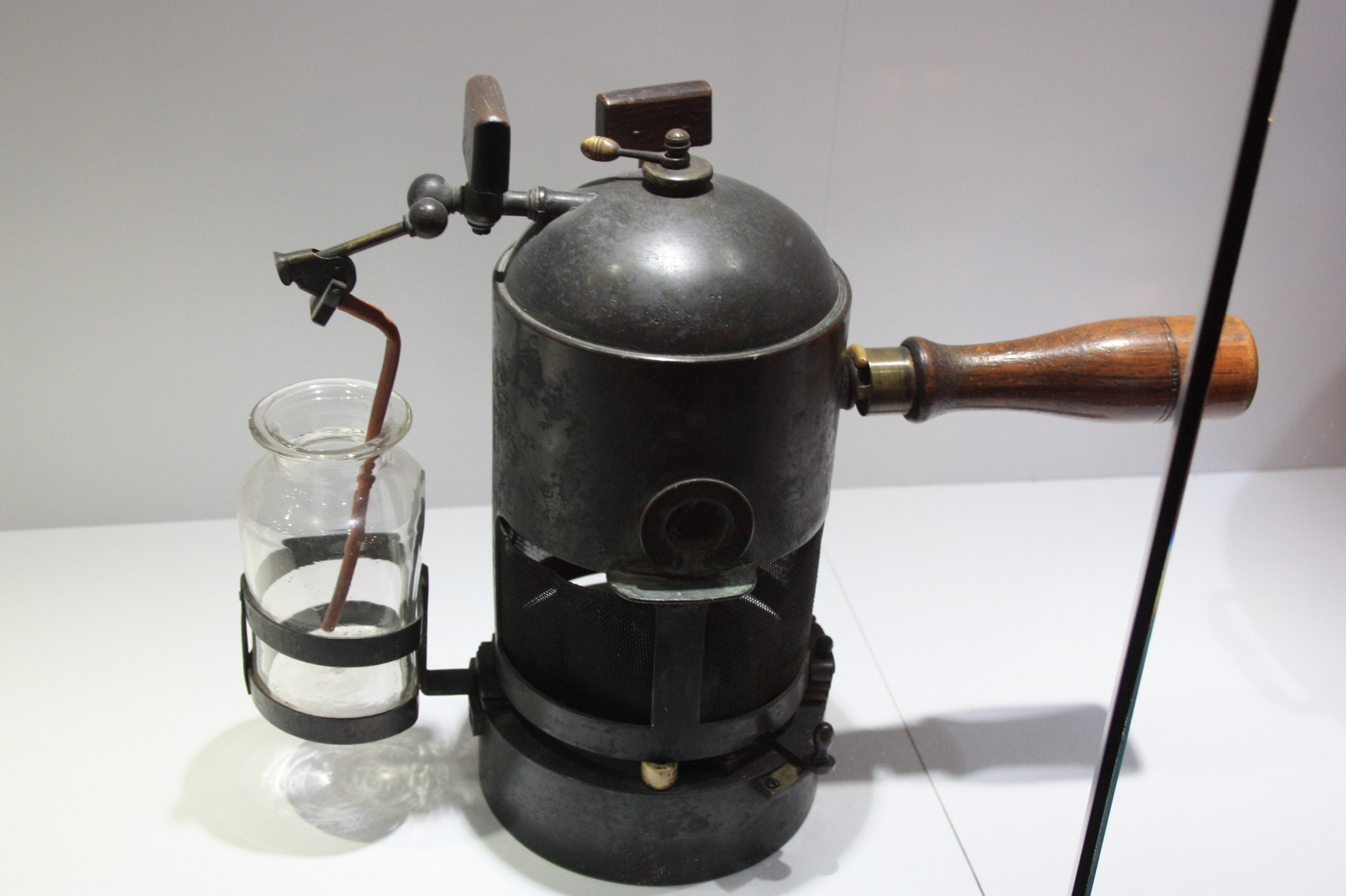 Lister's carbolic steam spray apparatus, Hunterian Museum, Glasgow